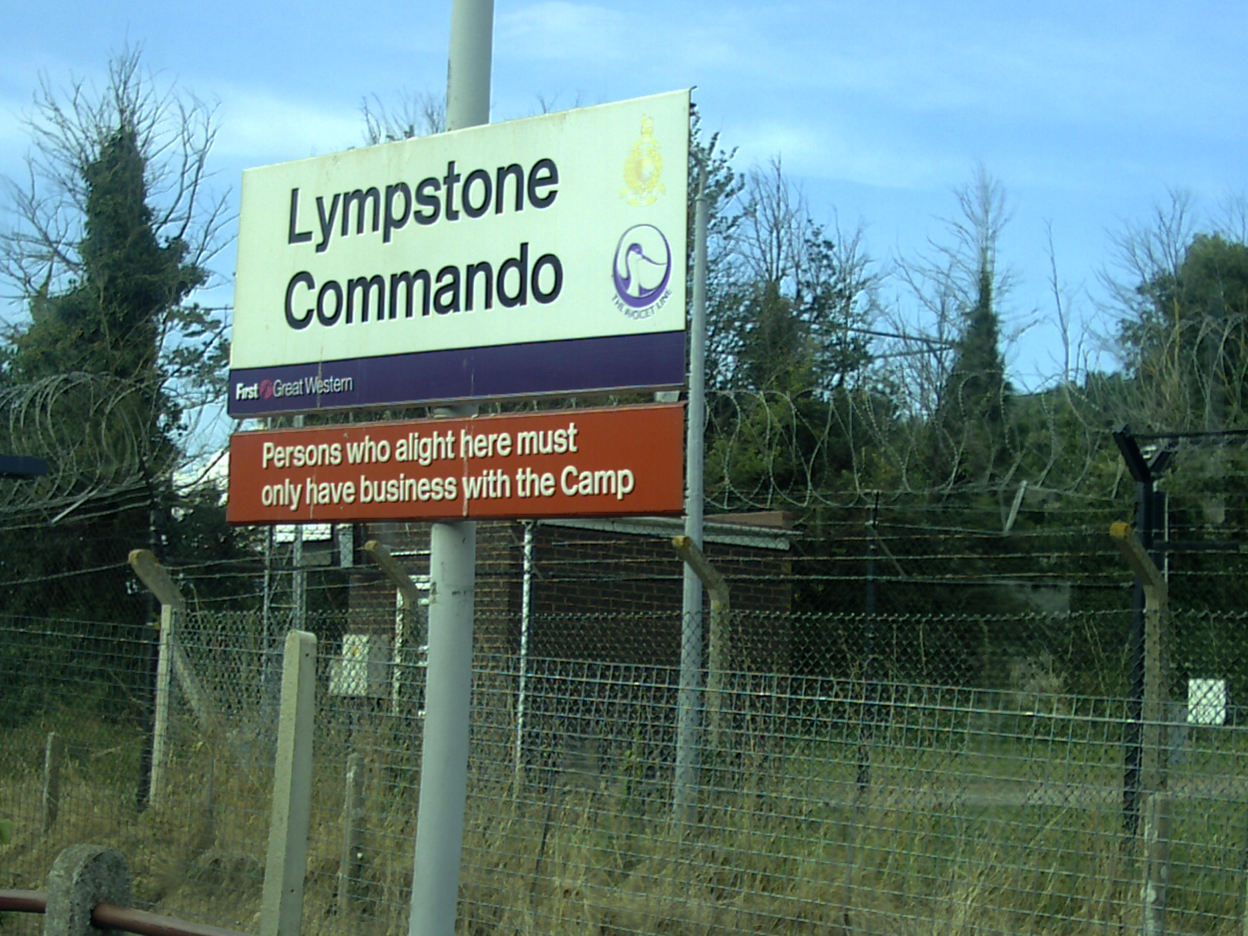 Lympstone Commando railway station